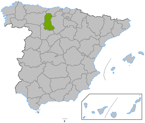 Location of the province of Palencia, in Spain. Basado en: ProvPont.jpg Source: Designed by Satesclop. Original picture, designed by Sobreira.